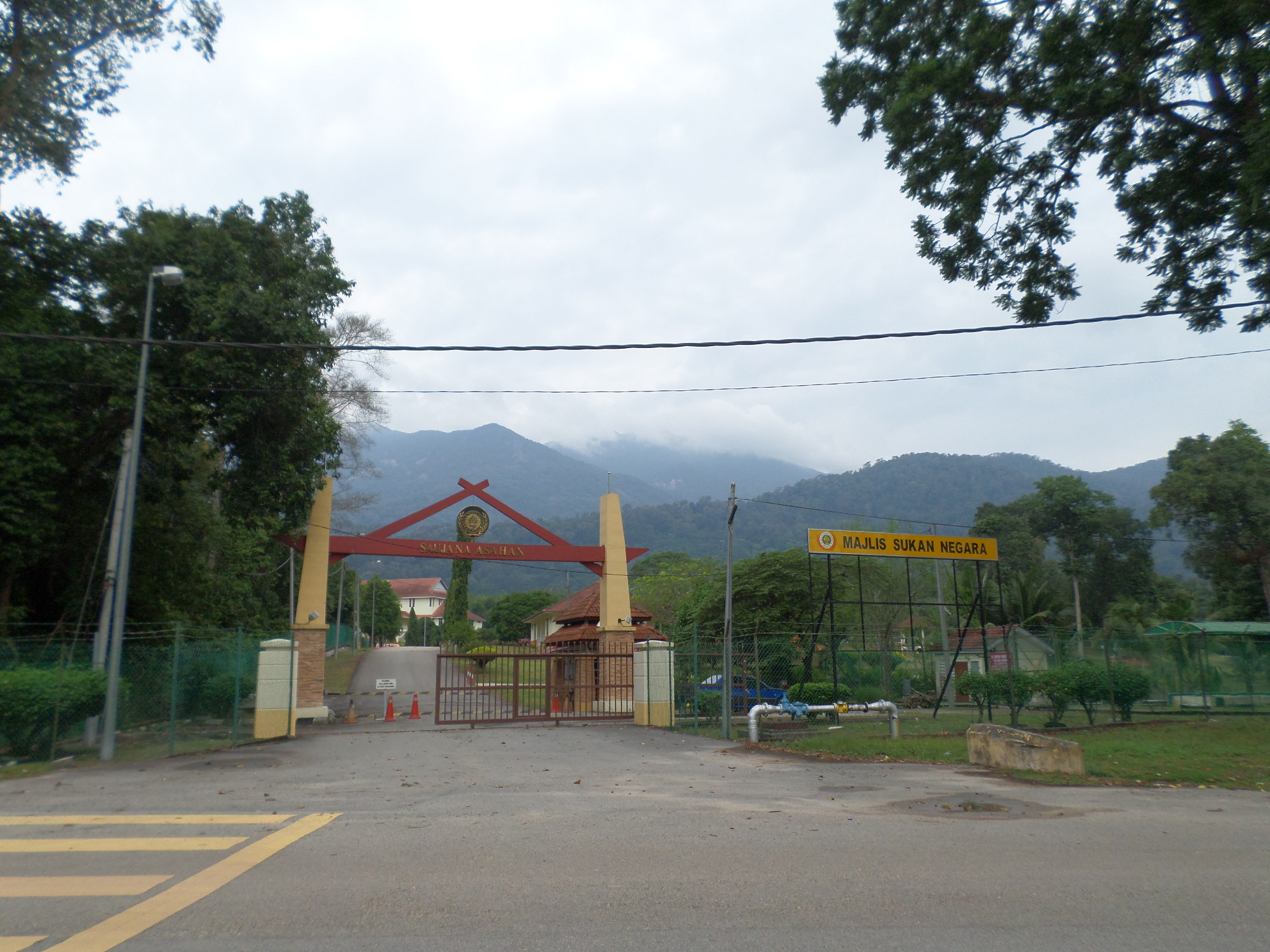 Saujana Asahan, Asahan, Jasin, Malacca, MalaysiaBahasa Melayu: Saujana Asahan, Asahan, Jasin, Melaka, Malaysia